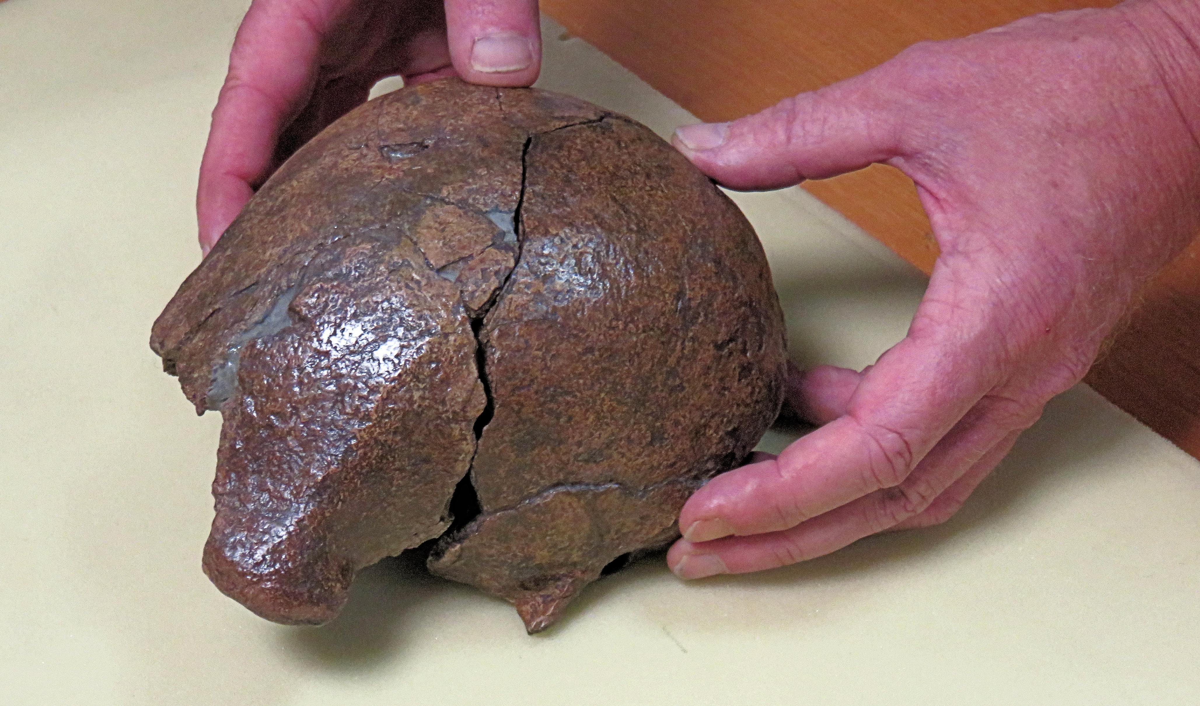 Calvarium (Schaedeldach) "Sangiran II" (Original) of Homo erectus, collection Koenigswald, Senckenberg-Museum, Frankfurt am Main, Germany